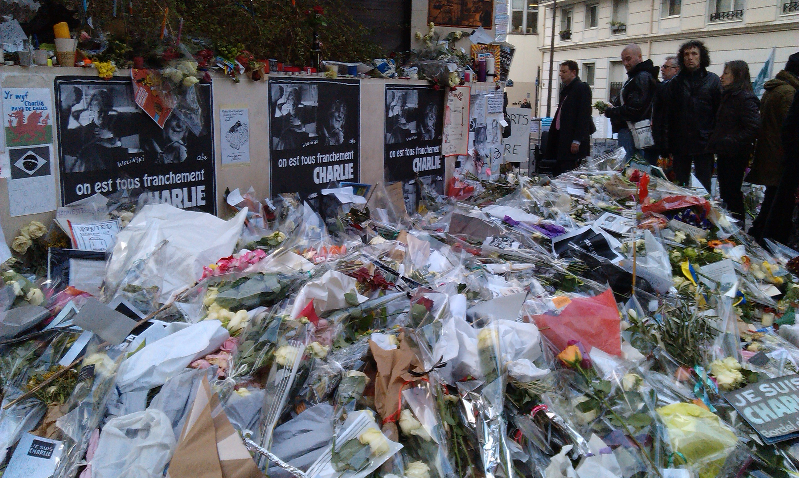 People at the crossing of Passage Saint-Anne Popincourt and Rue Nicolas Appert, 75011 Paris, next to Charlie Hebdo